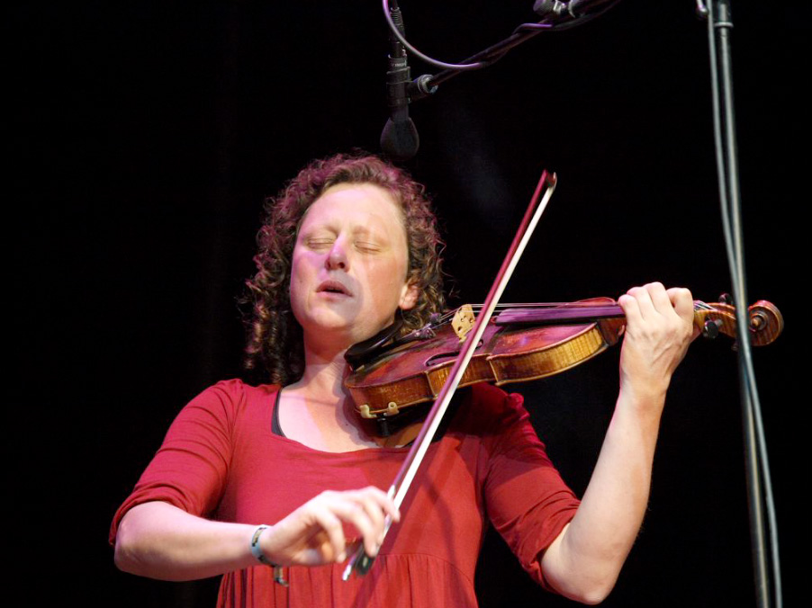 Gunda Gottschalk, moers festival 2008